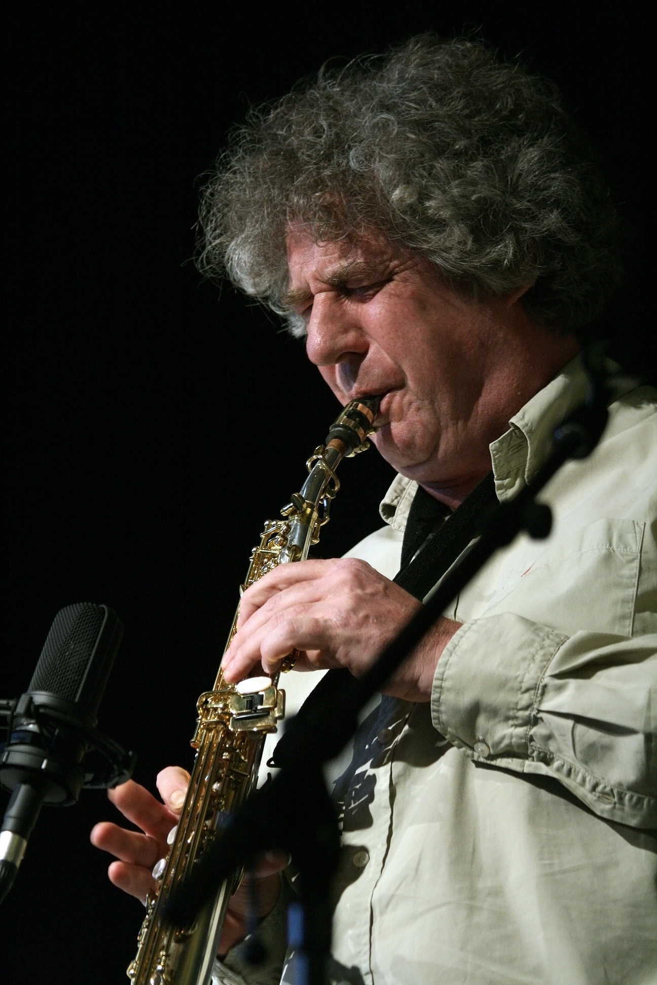 Hungarian musician László Dés at the pre-opening of the literary festival O-Töne 2011 at the Museumsquartier in Vienna